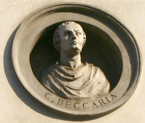 Cesare Beccaria. Detail from the series of decorative busts (portraying "distinguished Italians") on the facade Palazzo Brentani, in via Manzoni street at Milan(1829/30). Picture by Giovanni Dall'Orto, April 14 2007.